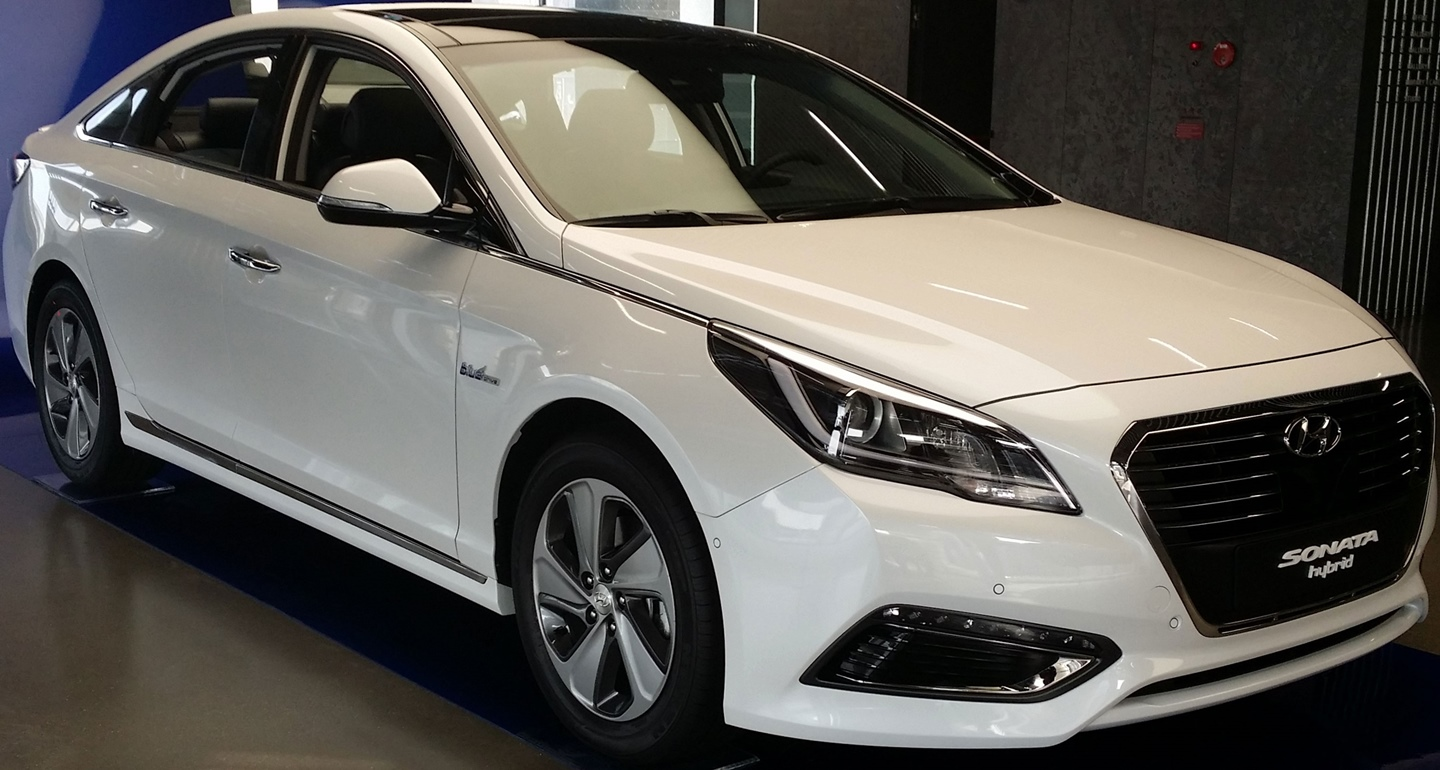 Hyundai Sonata Hybrid